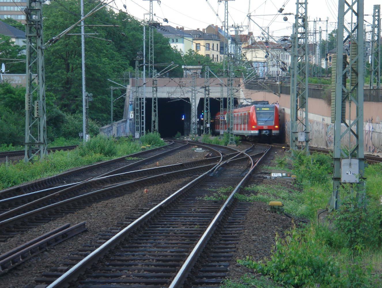 entrance to the subway city tunnel near the südbahnhof, in frankfurt am main, germany